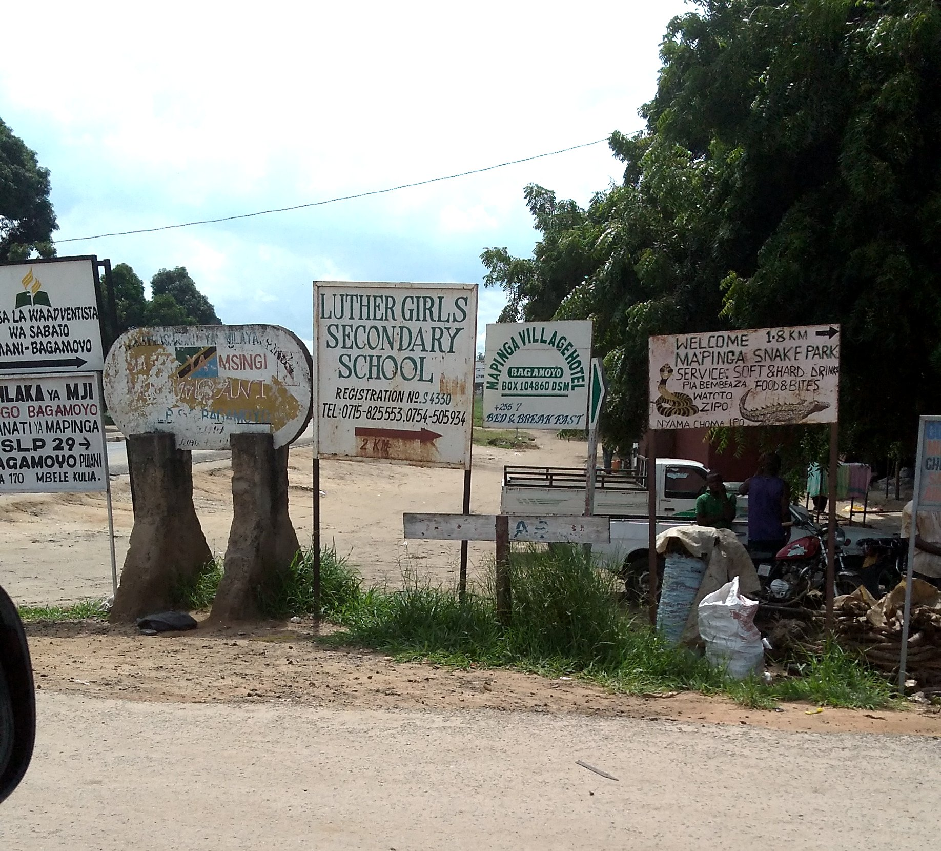 Streetcorner Kerege - Mapinga, Bagamoyo District, Tanzania